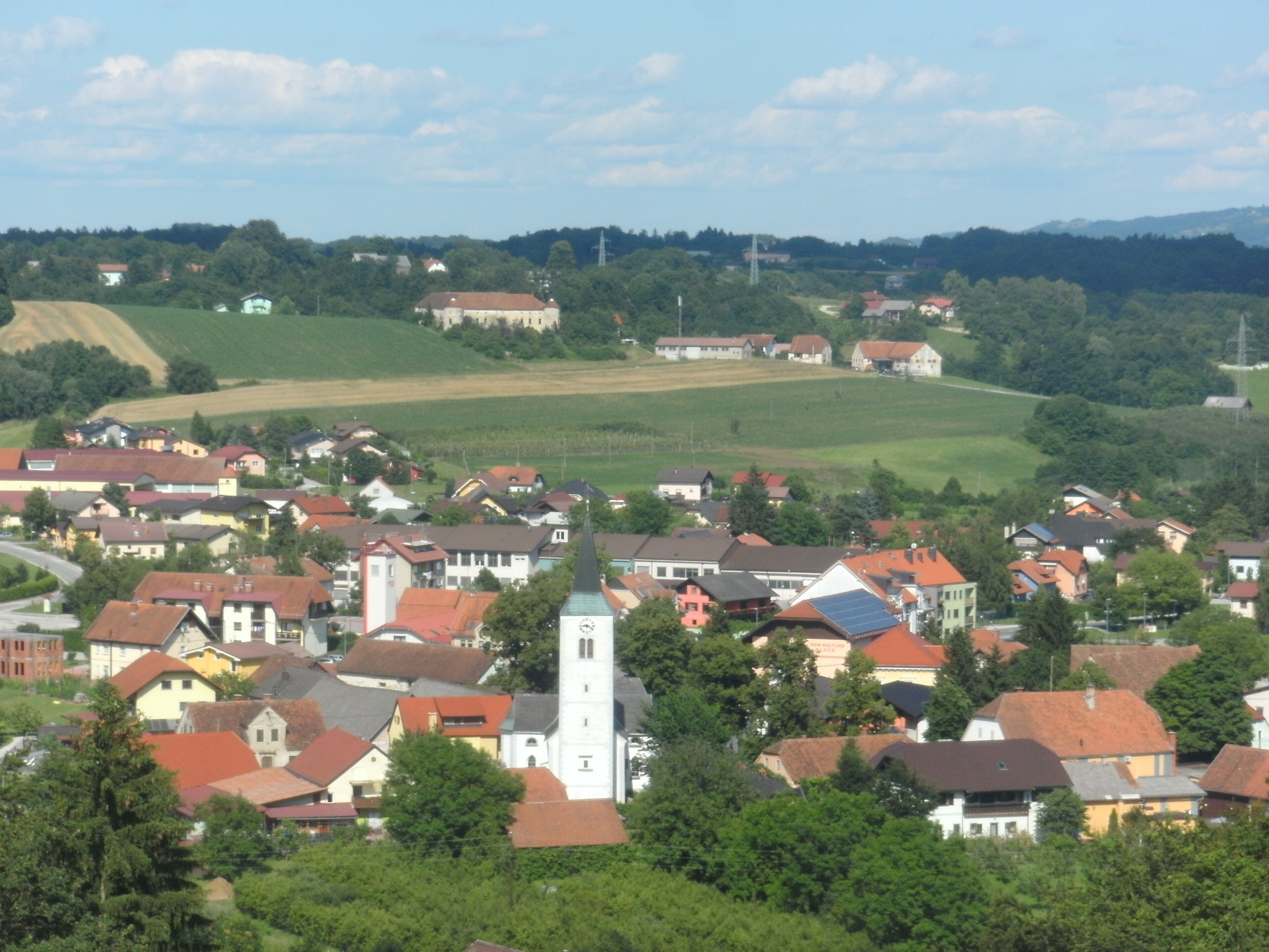 Loče wiew, Slovenia